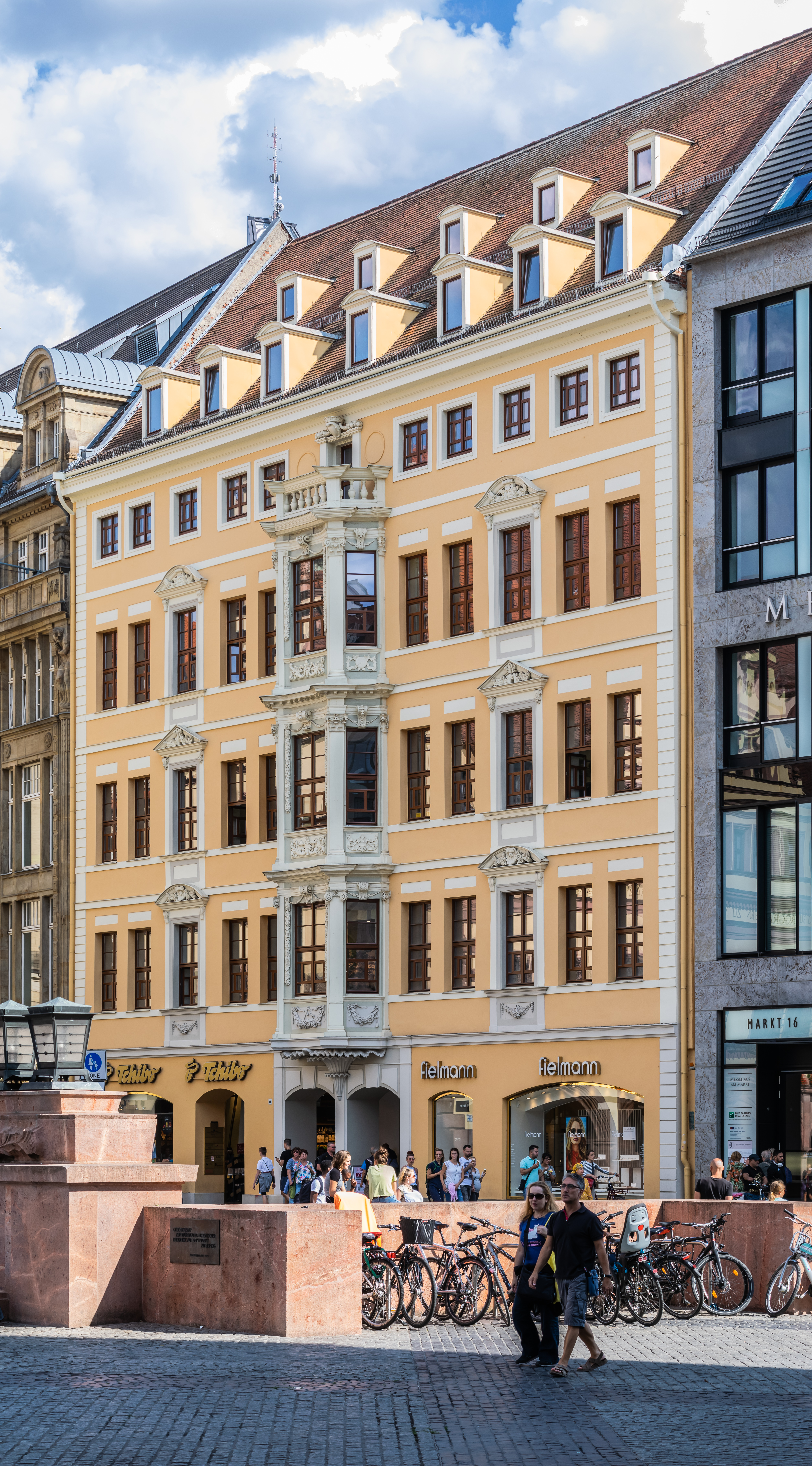 Königshaus at Markt 17 in Leipzig, Saxony, Germany